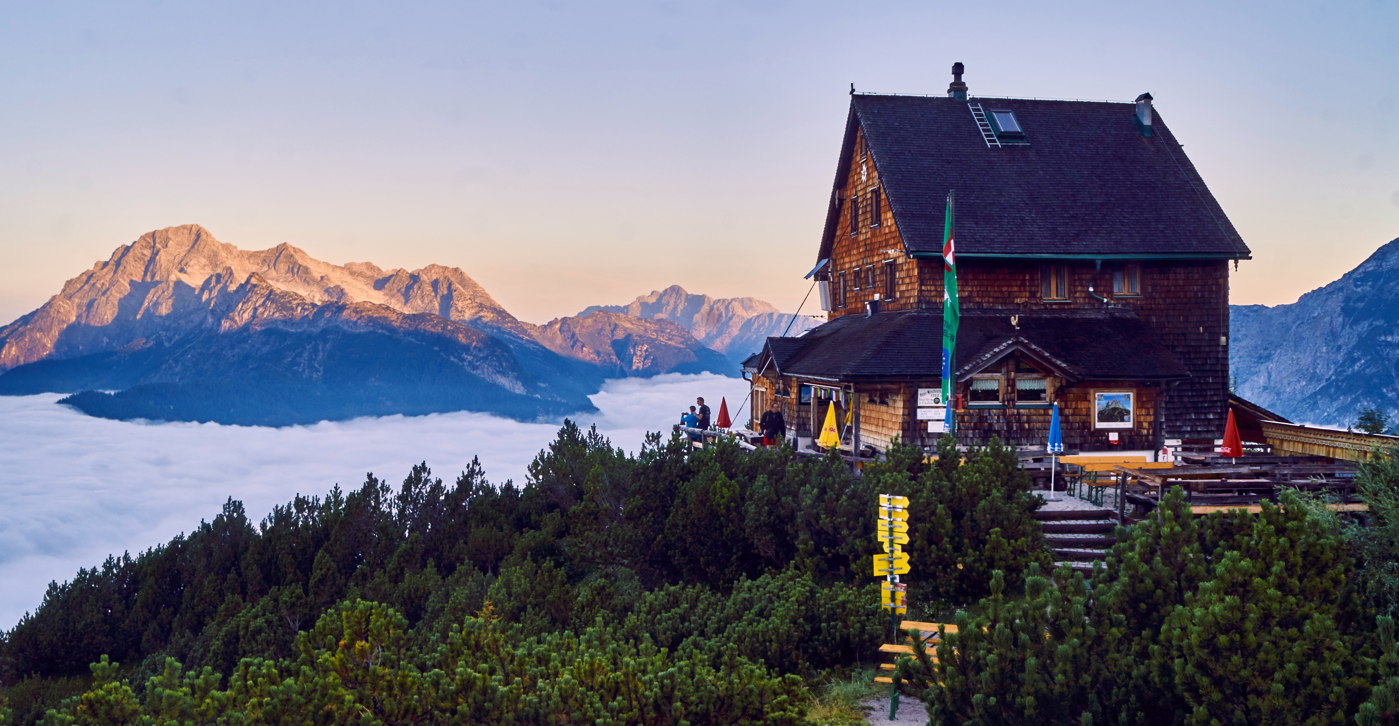 Peter-Wiechenthaler hut (Steinernes Meer) above the valley of Saalfelden, Austria. Leoganger and Loferer Steinberge in the background. This media shows the nature reserve in Salzburg with the ID NSG00012.